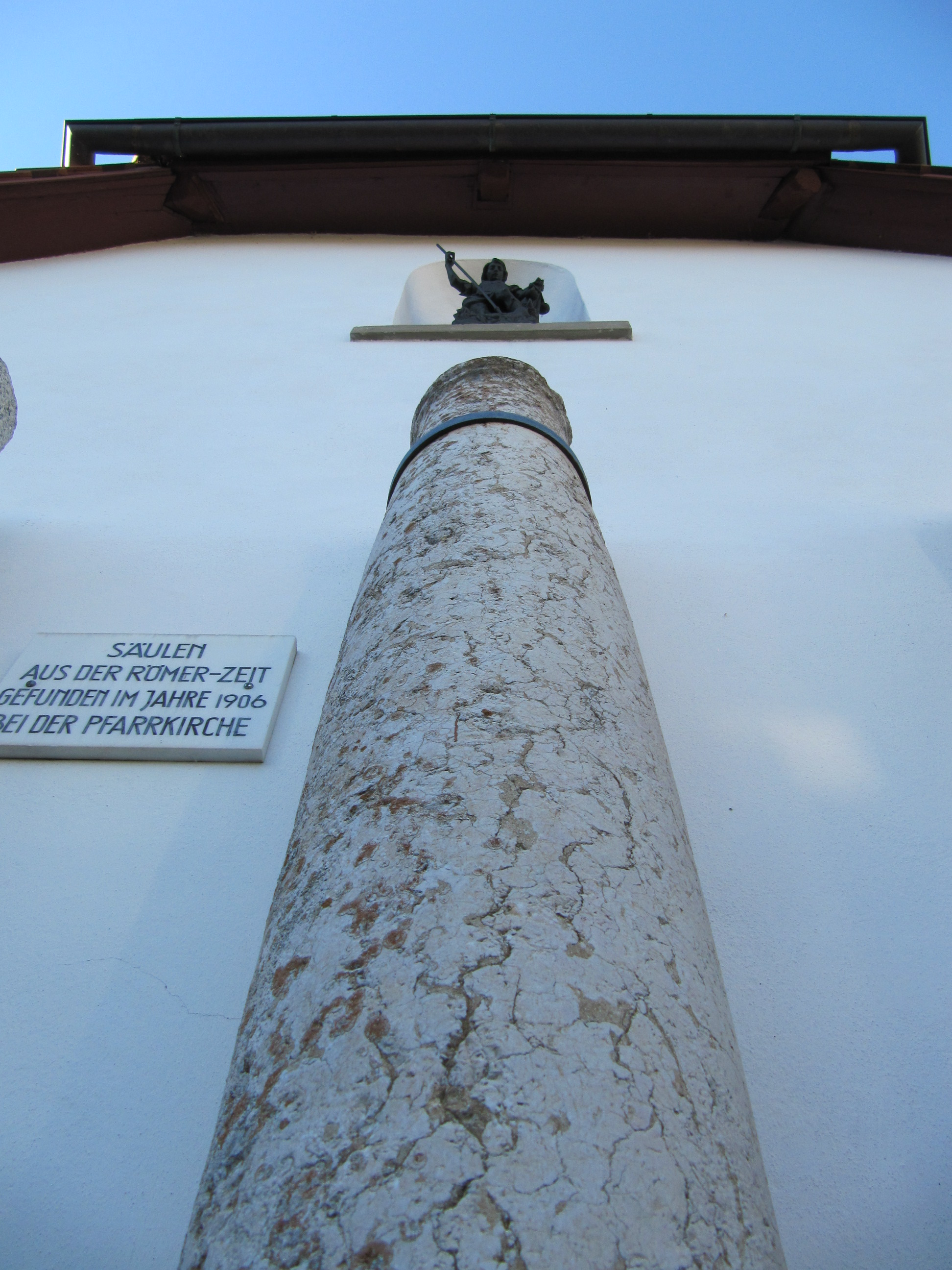 Roman column, Bösingen